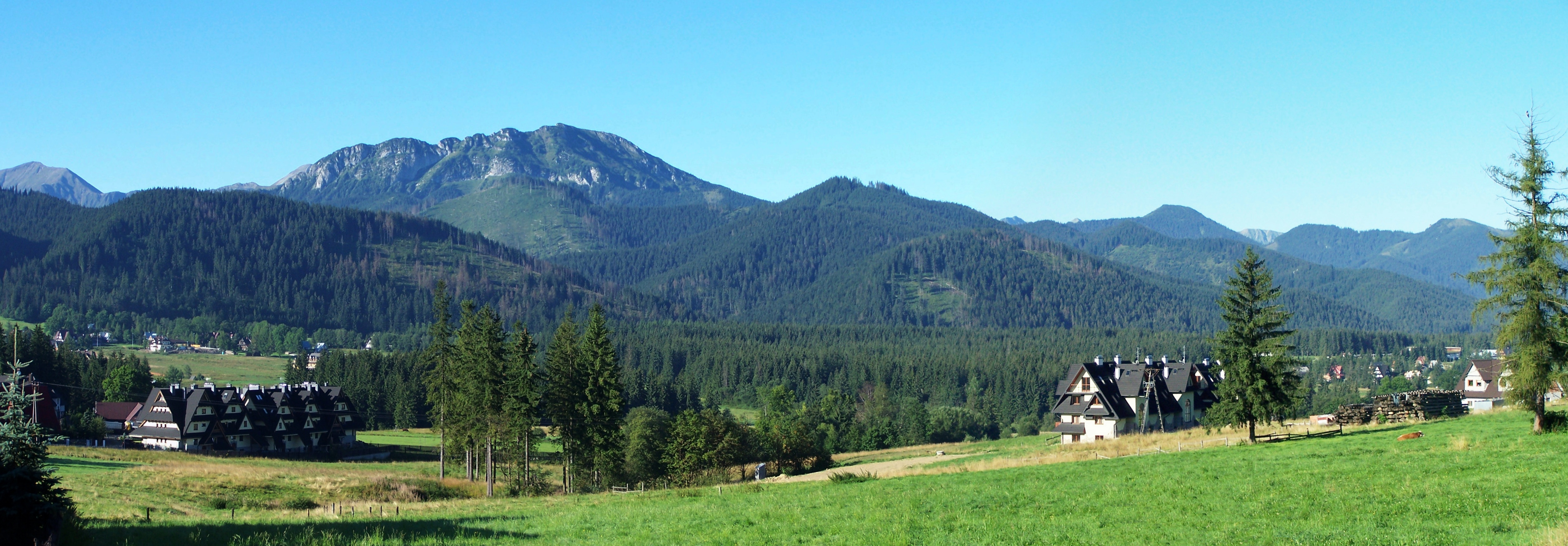 Widok z Pasma Gubałowskiego na Kościelisko i Tatry Zachodnie